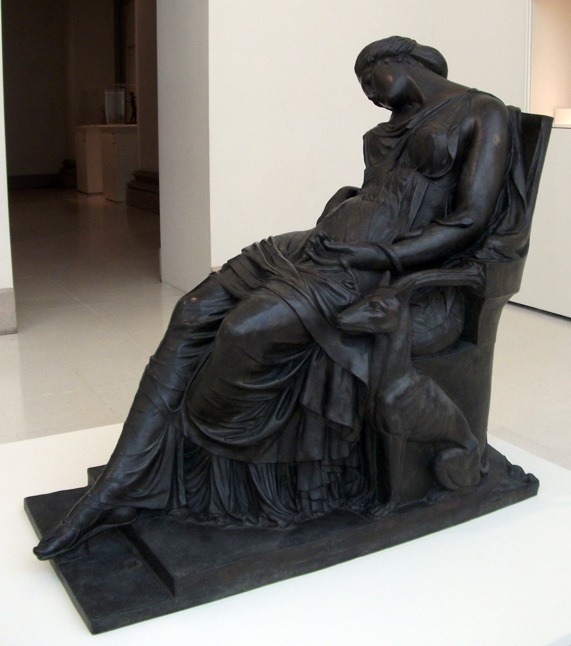 Museu Nacional d'Art de Catalunya Native nameMuseu Nacional d'Art de CatalunyaLocationBarcelona, (Catalonia, Spain)Coordinates41° 22′ 06″ N, 2° 09′ 12″ E Established1990Website control VIAF: 123033586 ISNI: 0000 0001 2284 7833 LCCN: n94001340 GND: 5089748-2 SUDOC: 030383498 WorldCat